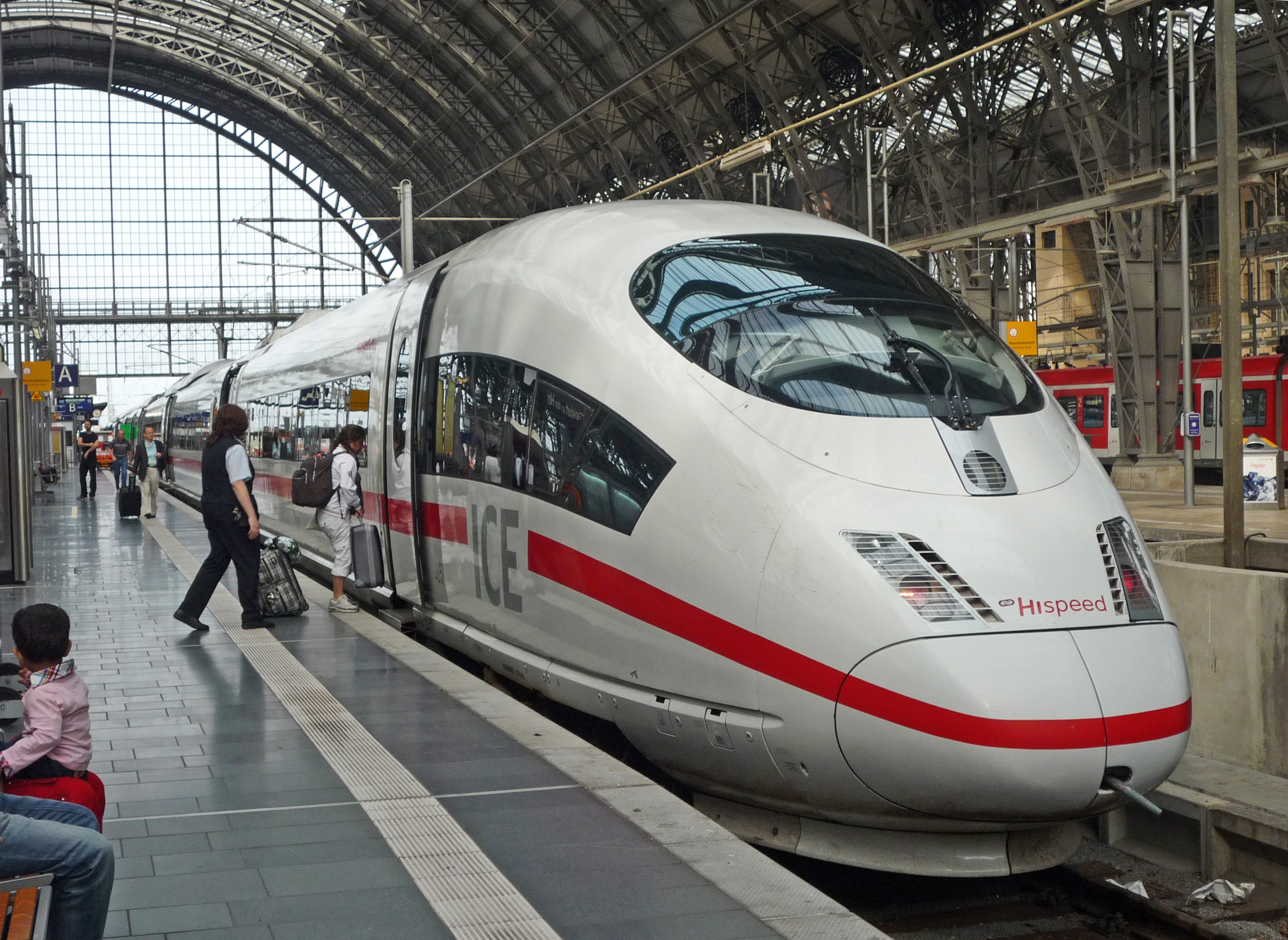 Frankfurt on Main central railway station with ICE3M-Netherlands